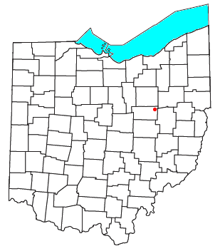 Locator map of the unincorporated community of Winesburg in Holmes County, Ohio, United States.